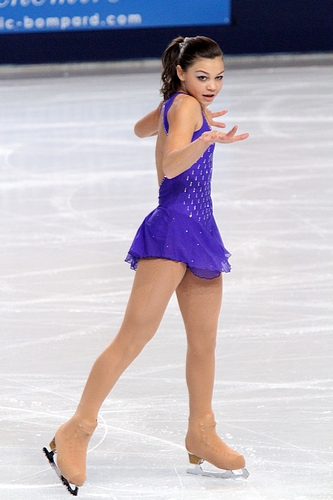 Léna Marrocco at the 2010 Trophy Eric Bompard.